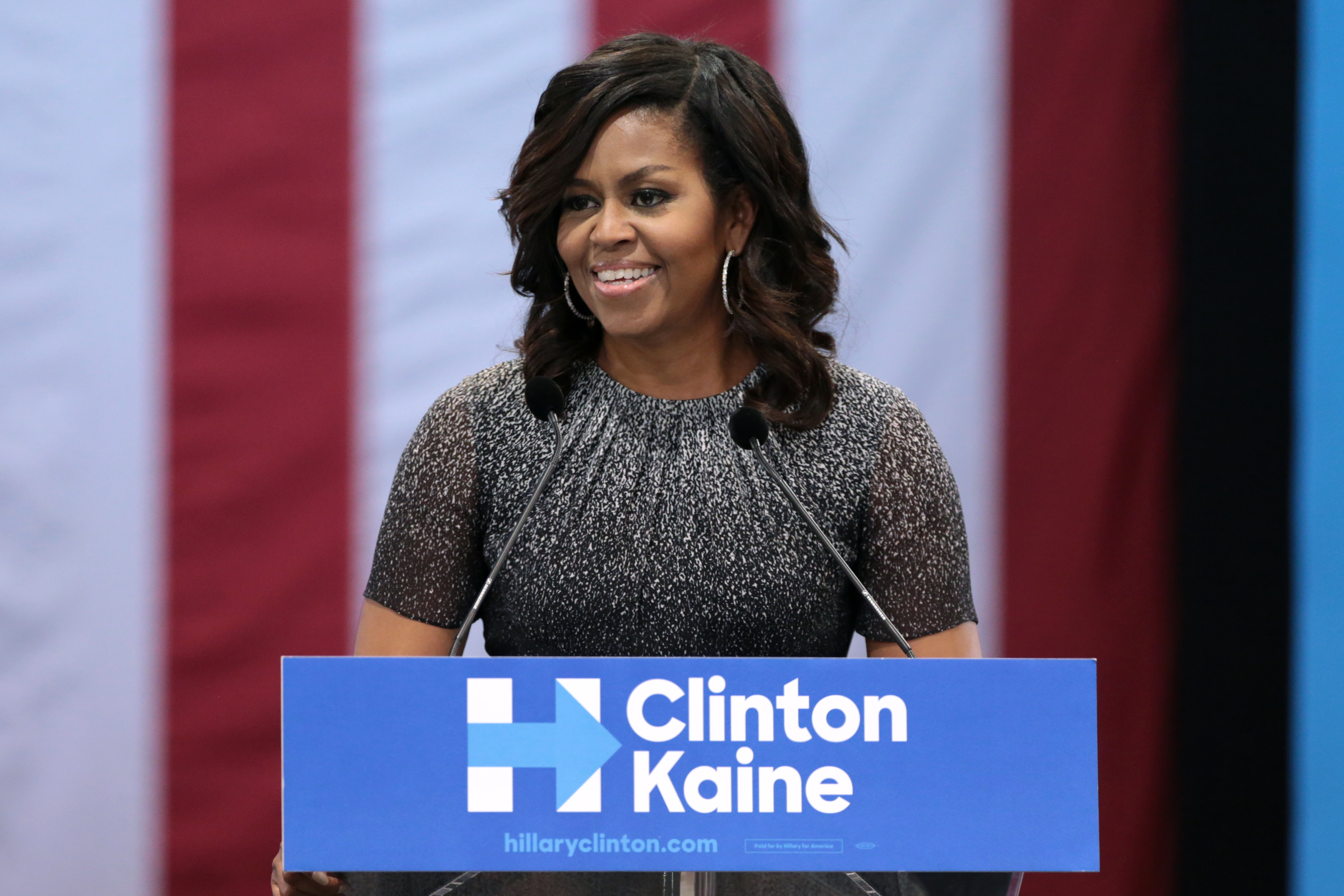 First Lady of the United States Michelle Obama speaking with supporters of former Secretary of State Hillary Clinton at a campaign rally at the Phoenix Convention Center in Phoenix, Arizona.